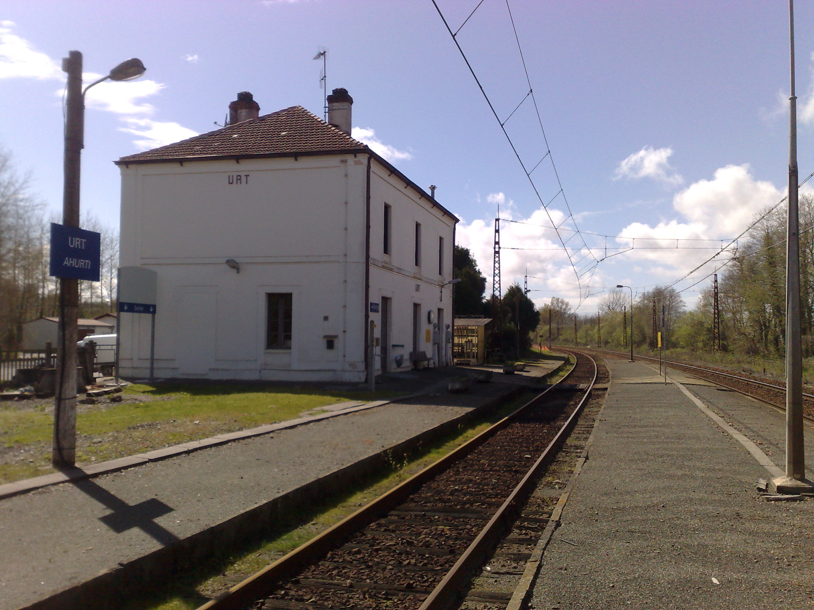 Ahurti (fr. Urt) train station towards Baiona-Bayonne, Lapurdi-Labourd, Basque Country.